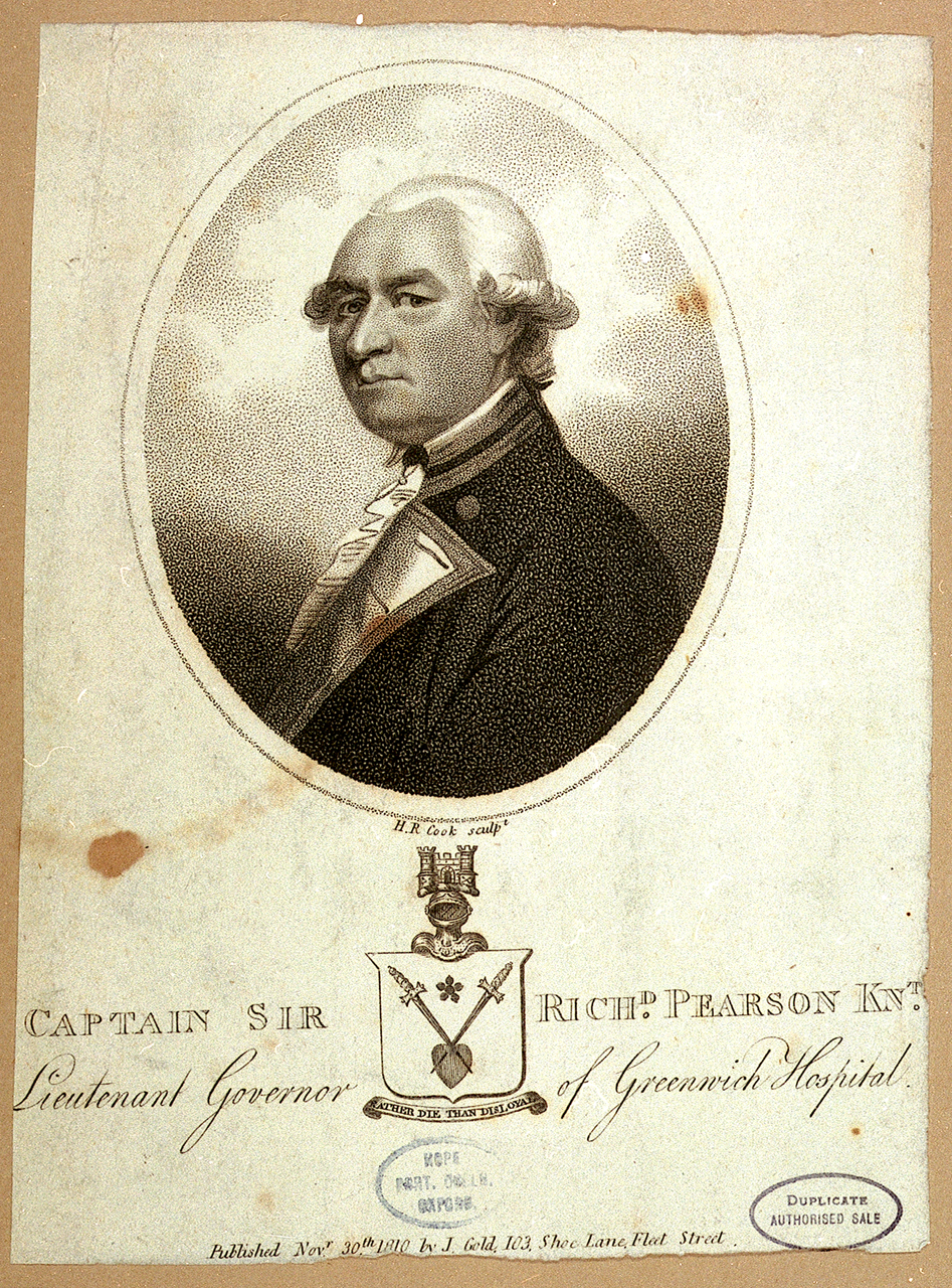 Captain Sir Richd Pearson Knt. Lieutenant Governor of Greenwich HospitalA print from the 'Naval Chronicle' of Pearson (1731-1806), who was Lieutenant-Governor at Greenwich from 1800 in succession to William Locker. Pearson is best known for his defence of a valuable Baltic convoy off Flamborough Head in 1779, when in command of the 'Serapis', against John Paul Jones's 'Bonhomme Richard' and a small accompanying American rebel squadron. Pearson saved his convoy but lost both 'Serapis' and her consort, the 'Countess of Scarborough', to Jones. On release from captivity in France he was knighted for the gallantry of his action and feted by the London merchants whose ships he had saved, though the rewards were perhaps excessive. If the original image for this print is by Grignion, which is open to doubt, it is not from the NMM portrait by that artist (BHC2942). 'Captain Sir Richd Pearson Knt. Lieutenant Governor of Greenwich Hospital'